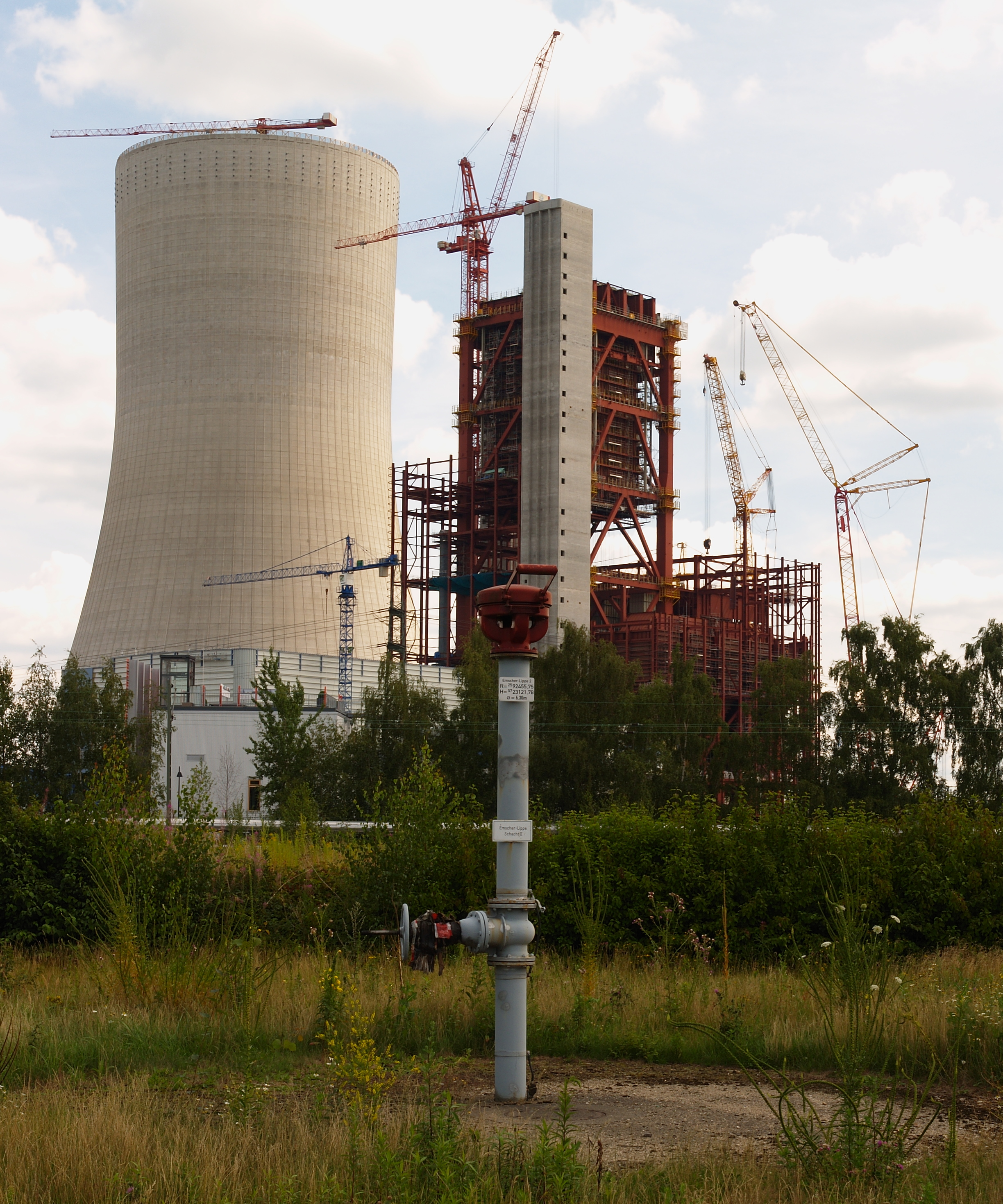 Coal power plant in Datteln (Germany) at the Dortmund-Ems-Kanal - New section under construction. In front the former pit of coal mine Emscher-Lippe